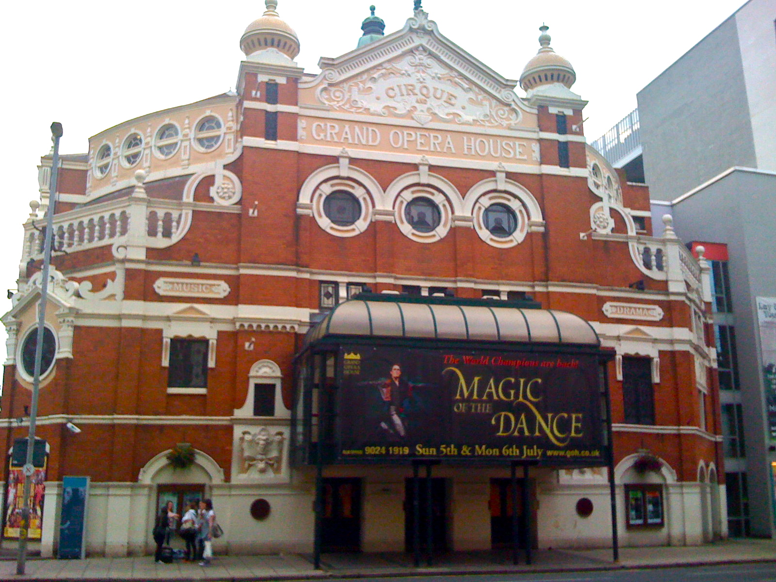 Grand Opera House-Belfast